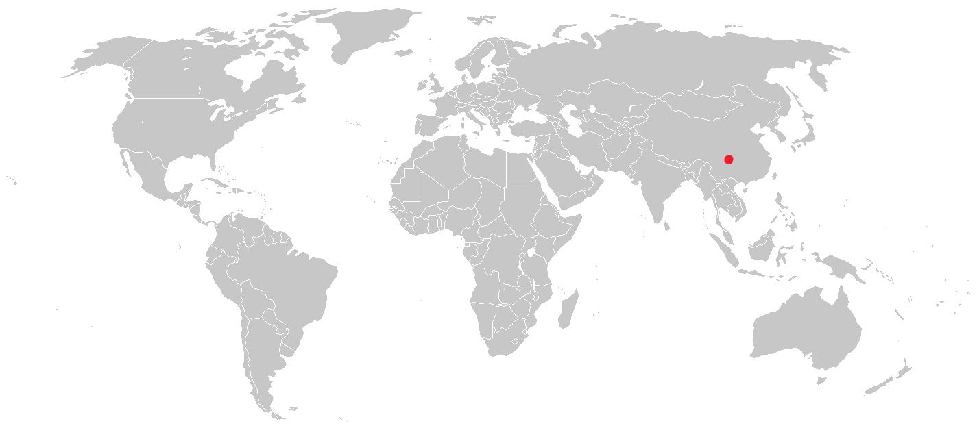 Distribution map the Abrosaurus